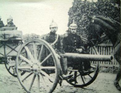 Postcard of Germany - German artillery Depicted gun is Feldkanone C/96, introduced as an already outdated design in 1896. These guns were therefore in response to french Canon de 75 modèle 1897 in 1904 converted to much differently looking Feldkanone 96 nA. Only few non-converted guns were kept as Feldkanone 96 aA. The given date and context (postcard 1914) therefore seems questionable: at least on postcards you usually don't show your folks going to war with that much outdated, and rare, equipment. Uniforms look very much pre-1907, too.